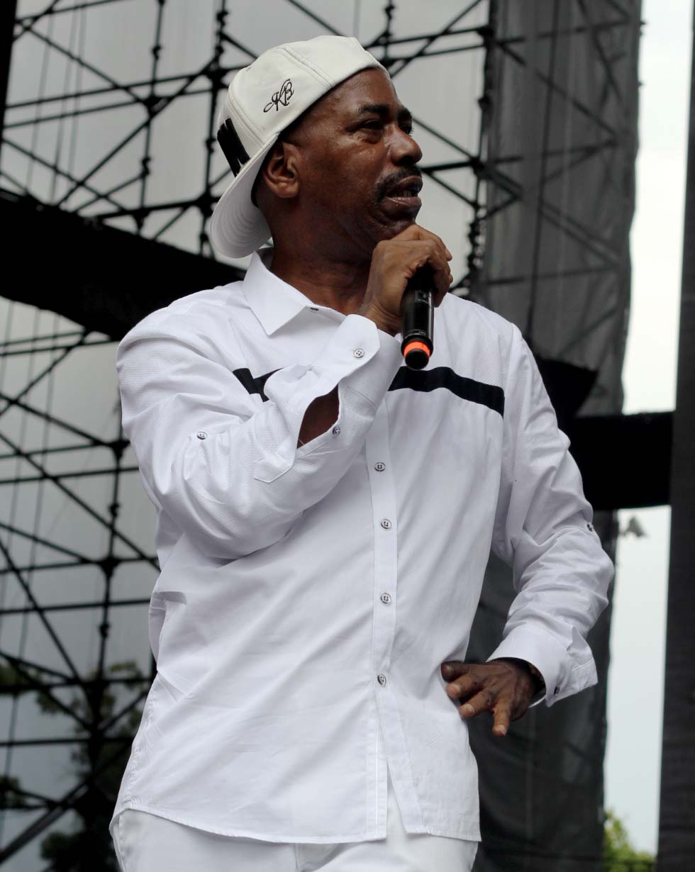 Art of Rap Fest